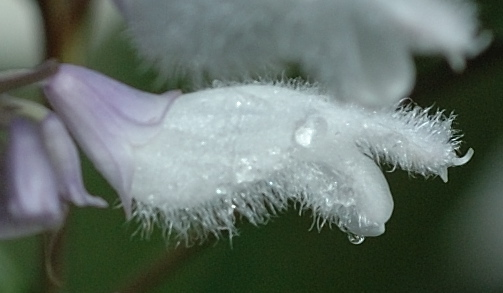 Salvia divinorum flower detail